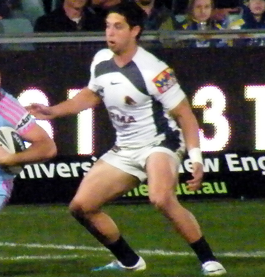 Gerard Beale